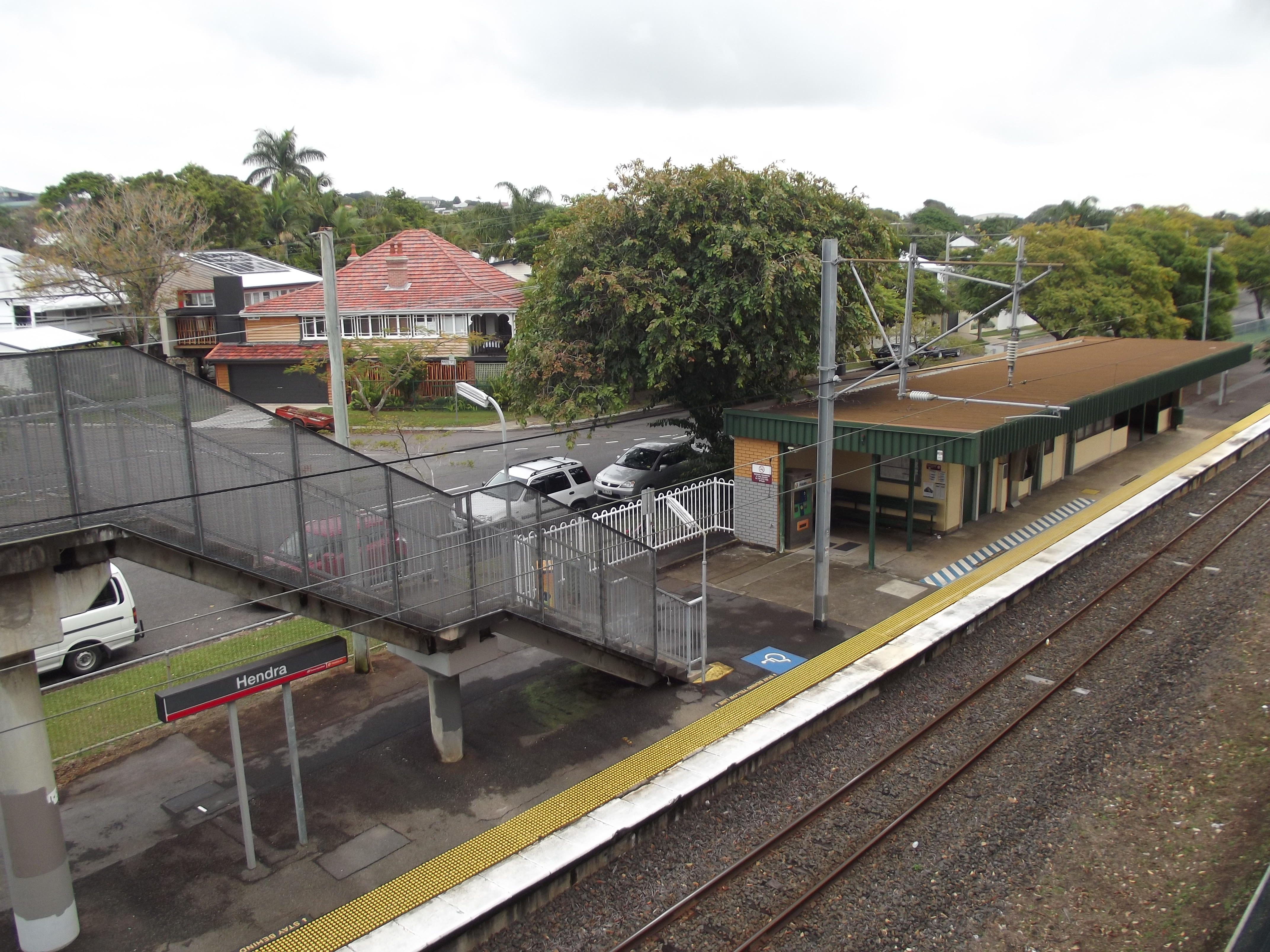 A photo of the Hendra railway station, operated by TransLink, located in Brisbane, Queensland.